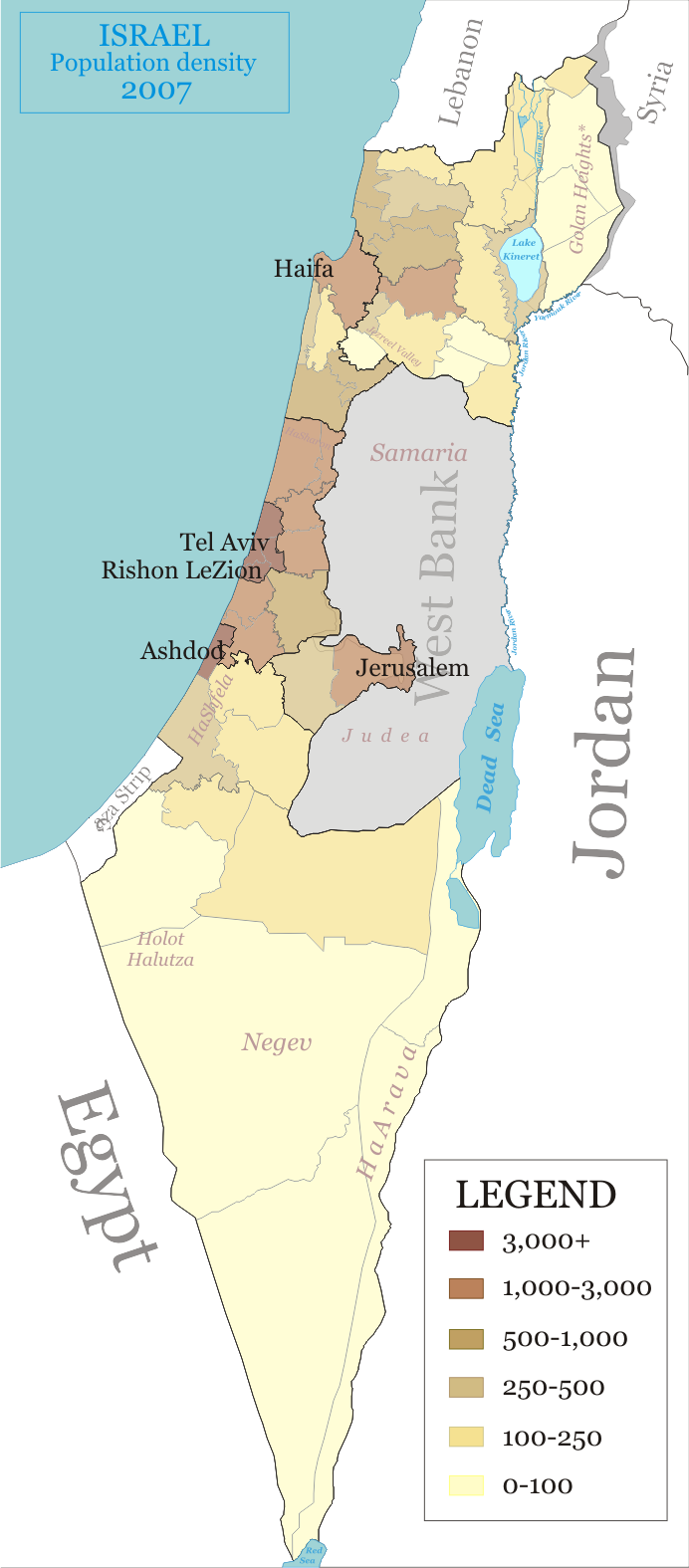 Population density of Israel by geographical region, as defined by the government and CBS.